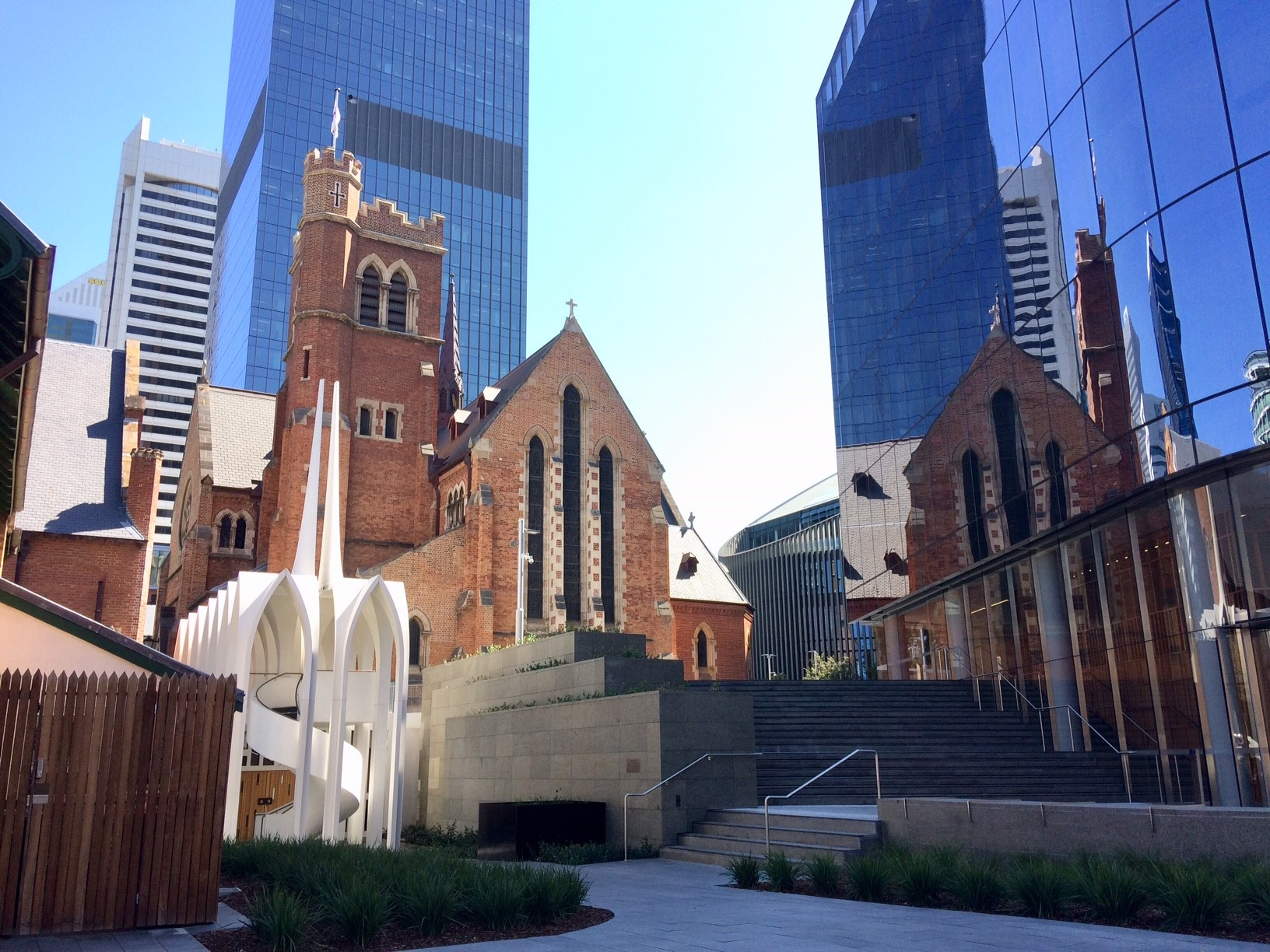 Cathedral Square, Perth 2018